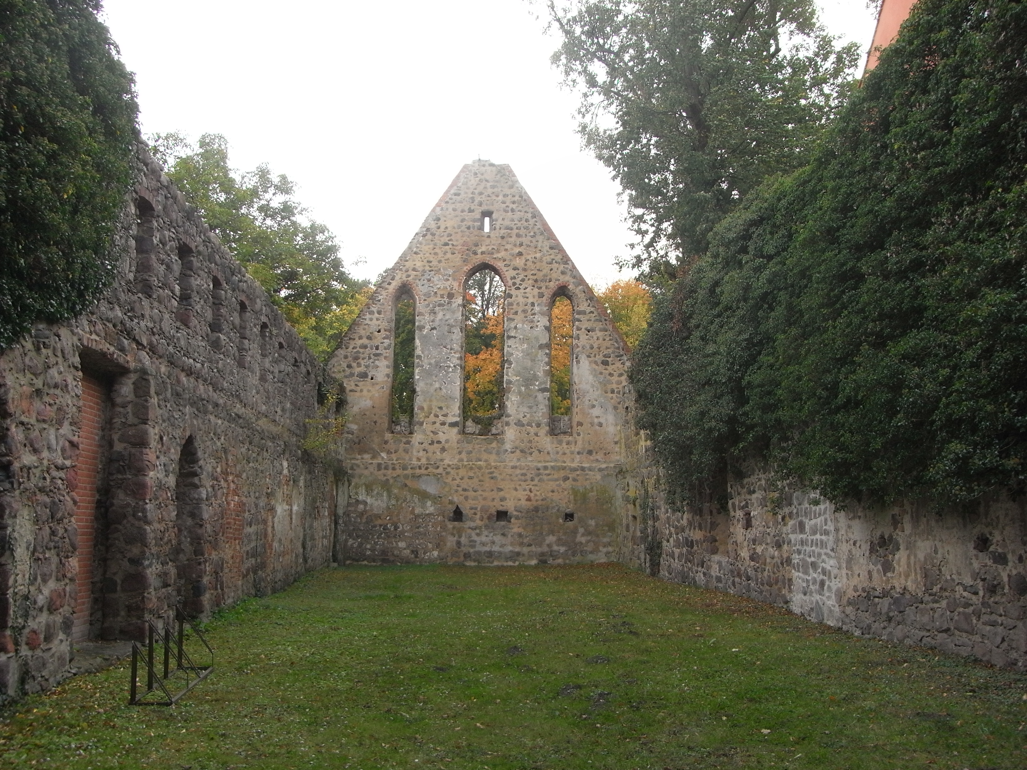 Ruins of the dormitory of Zehdenick monastery